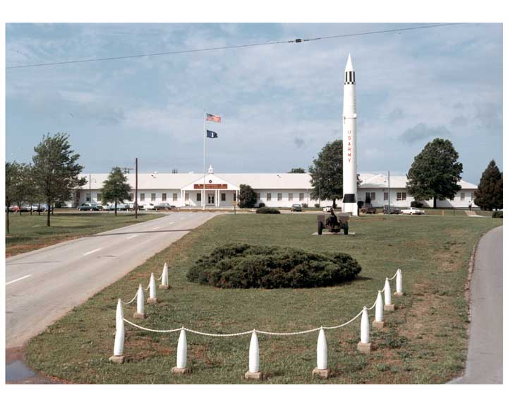 Redstone Arsenal building 7101.